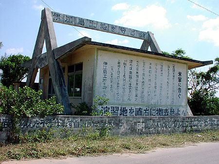 Danketsu-Dojo in Iejima